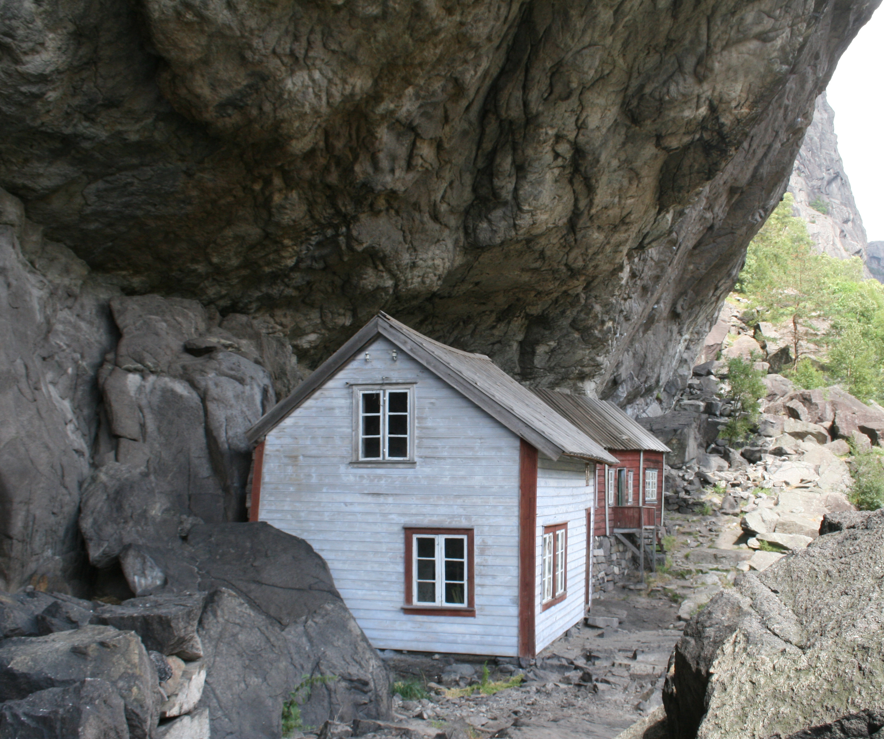 Helleren in Jøssingfjord (Sokndal municipality in Rogaland, Norway). Old housing area under a ten meter deep mountain cliff. All year settlement from the 16th century, but archeological tracks back to the stone age. Last dwellers left around 1910. Two small wooden houses from the 19th century are now owned by the district museum. Photo from the southwest.